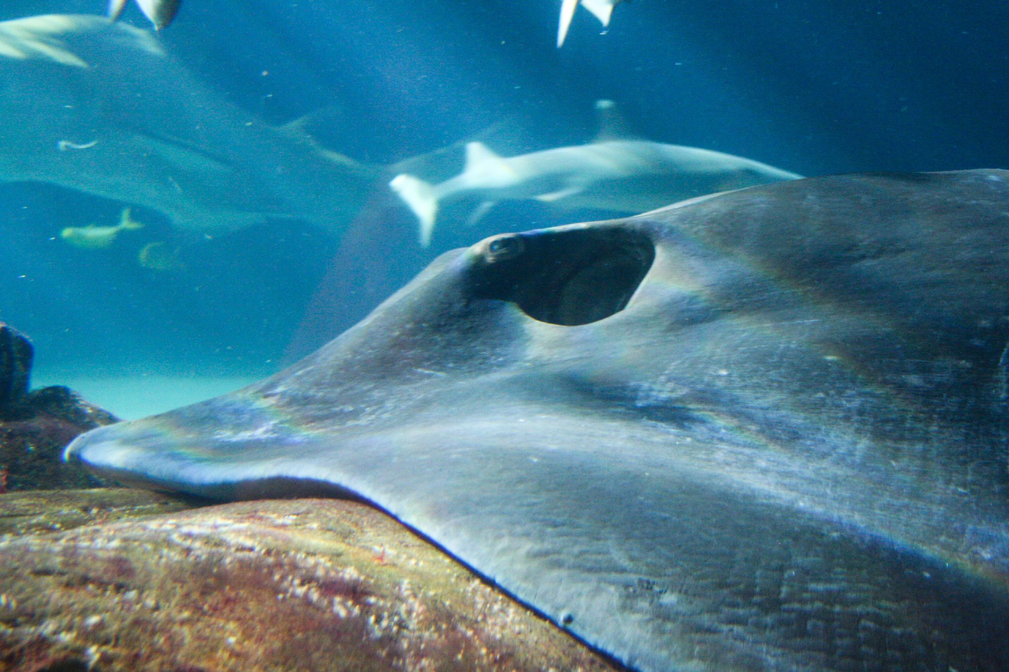 Short-tail stingray (Dasyatis brevicaudata) at the Sydney Aquarium.